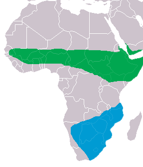 Distribution of Ciconia abdinii